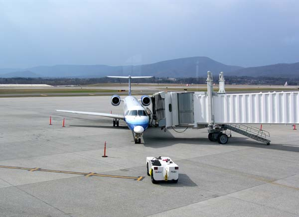 Embraer 145 at the Roanoke Regional Airport, Roanoke, Virginia